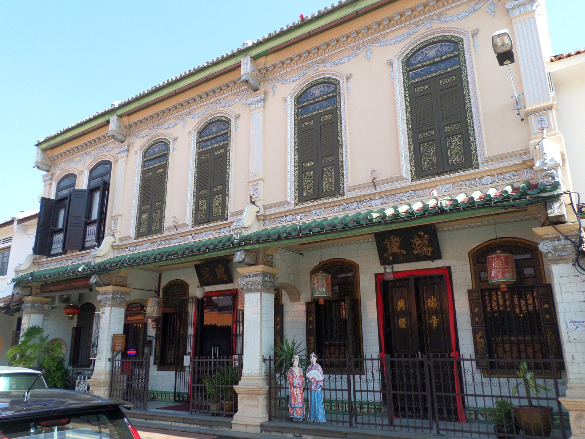 Baba Nyonya Heritage Museum, Chinatown, Melaka City, Melaka, MalaysiaBahasa Melayu: Muzium Warisan Baba Nyonya, Bandaraya Melaka, Melaka, Malaysia